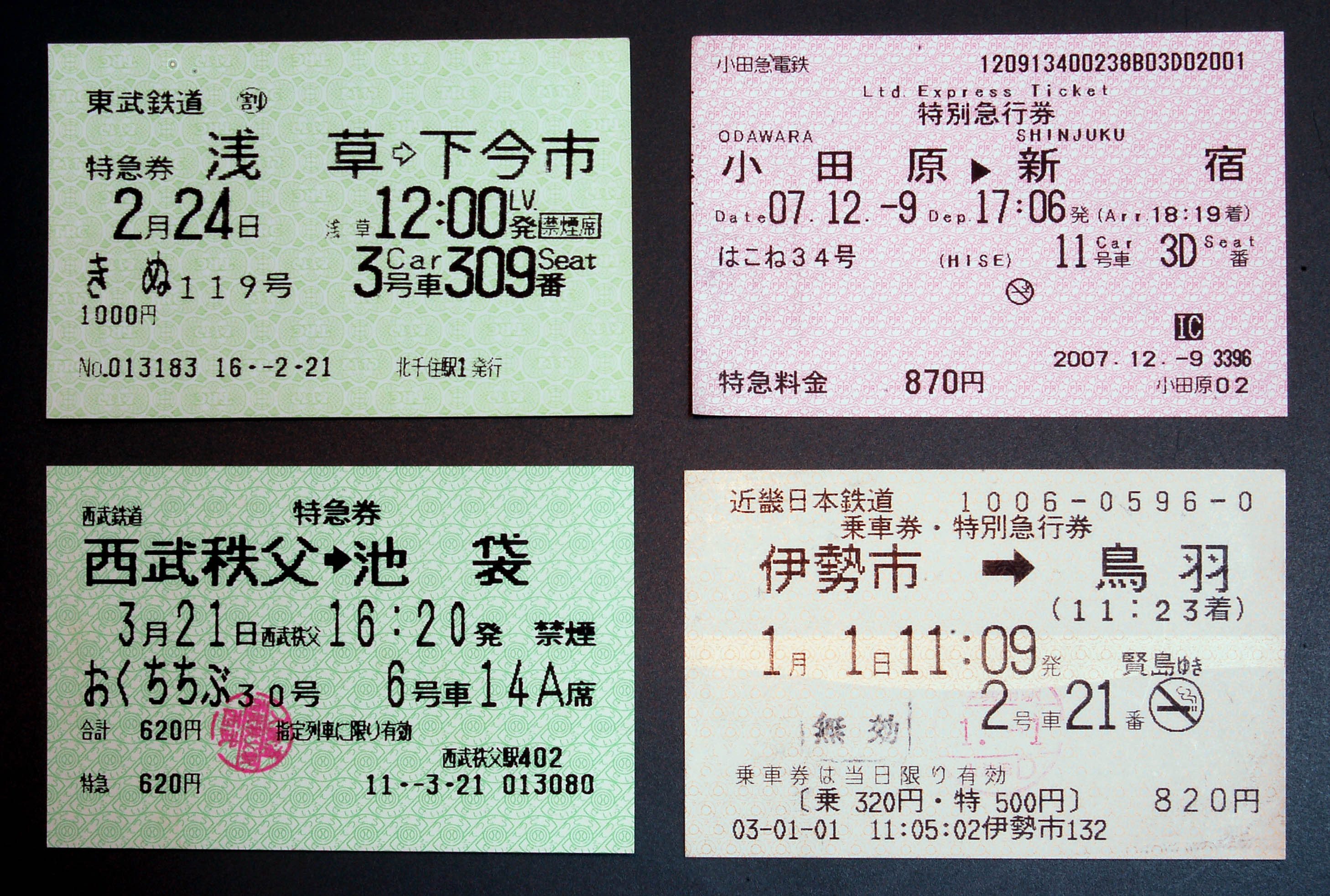 Japanese private railway limited express tickets: Tobu Railway, Seibu Railway, Odakyu Electric Railway, and Kintetsu